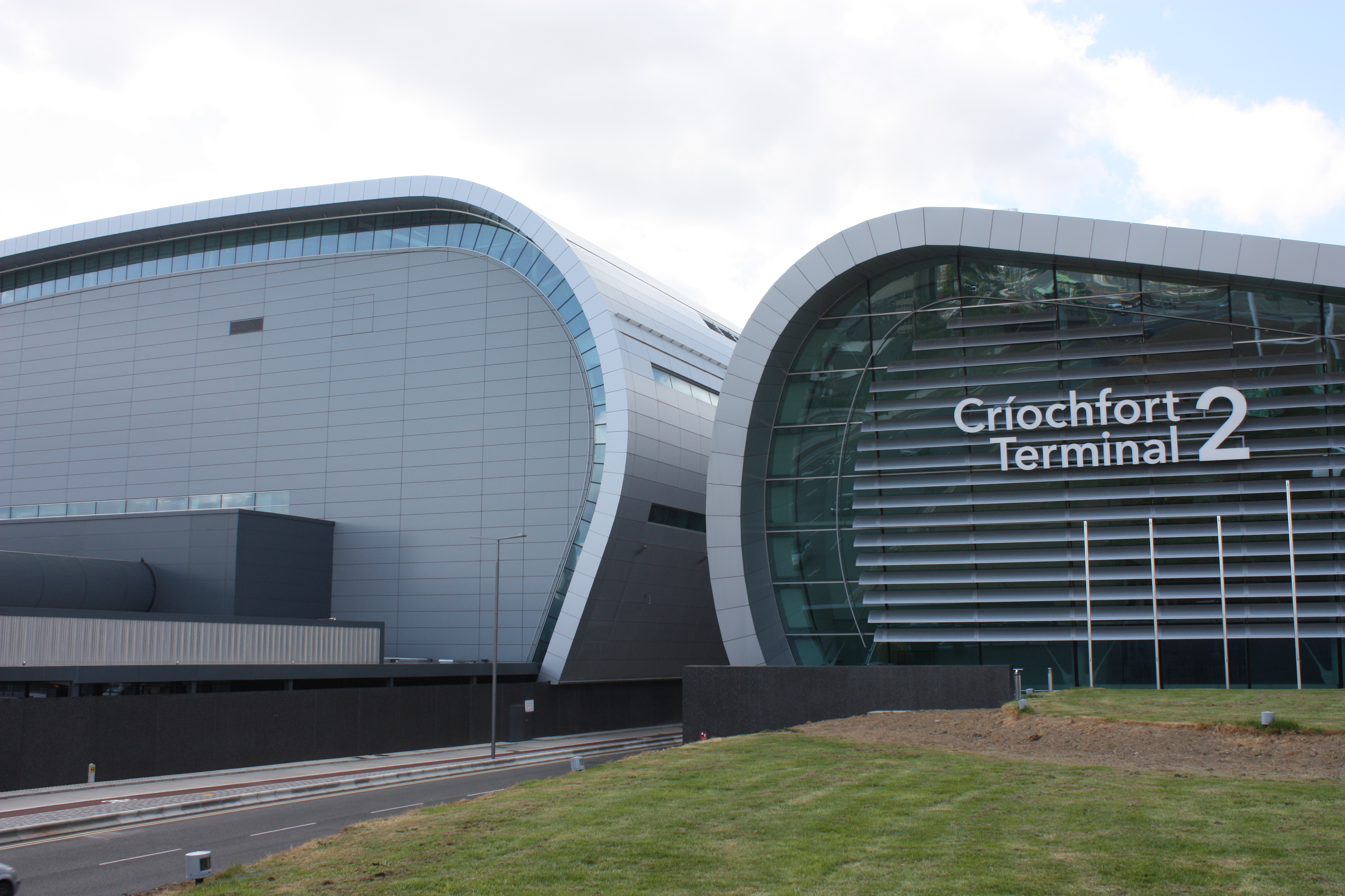 Terminal 2, Dublin Airport, Dublin, Ireland, May 2011